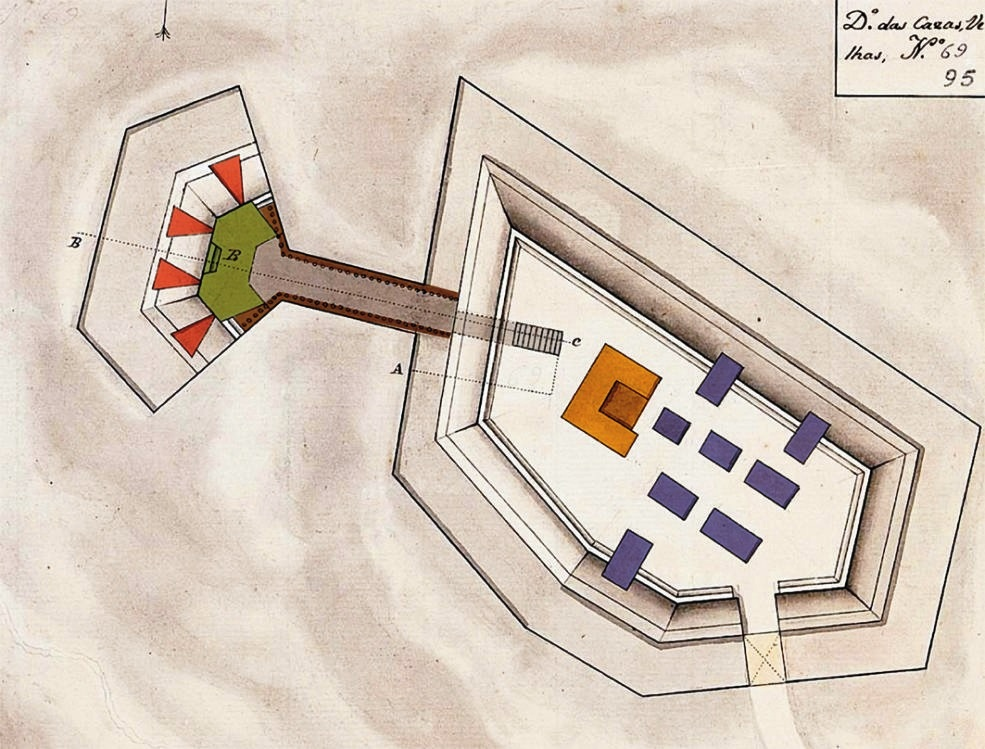 Plan of Fort of Zambujal, Mafra, Portugal. Design shows the central stronghold connected to the bastion by a tunnel.